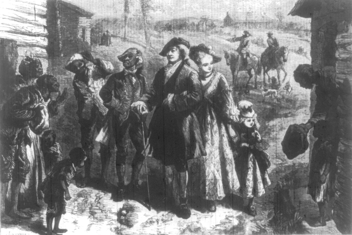 Well-dressed plantation owner and family visiting the slave quarters.